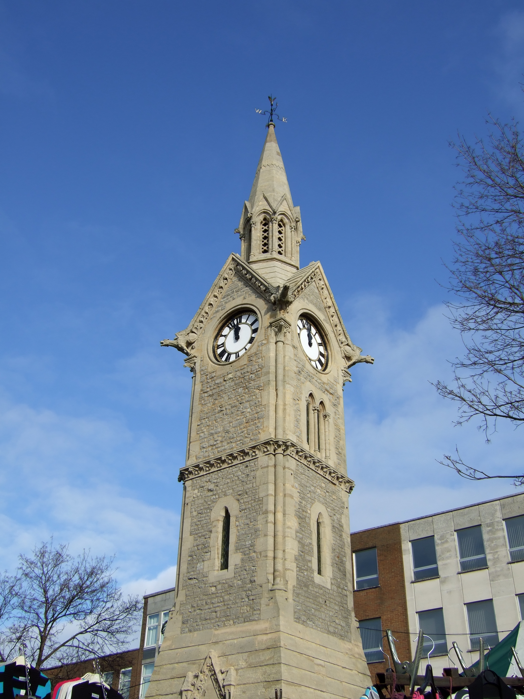 The Clock Tower on Market Square in Aylesbury.